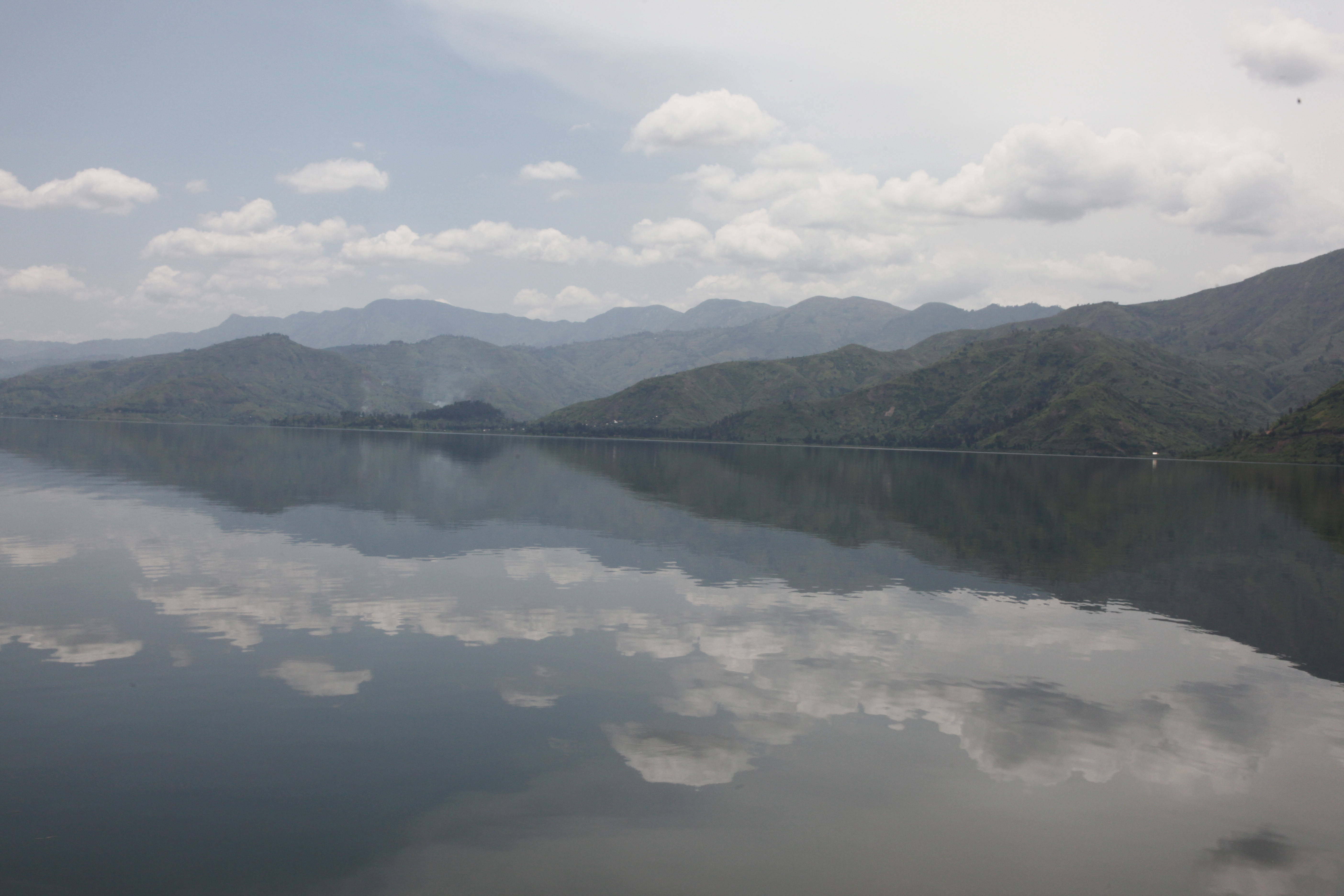 View of the sky and its reflection on Lake Kivu